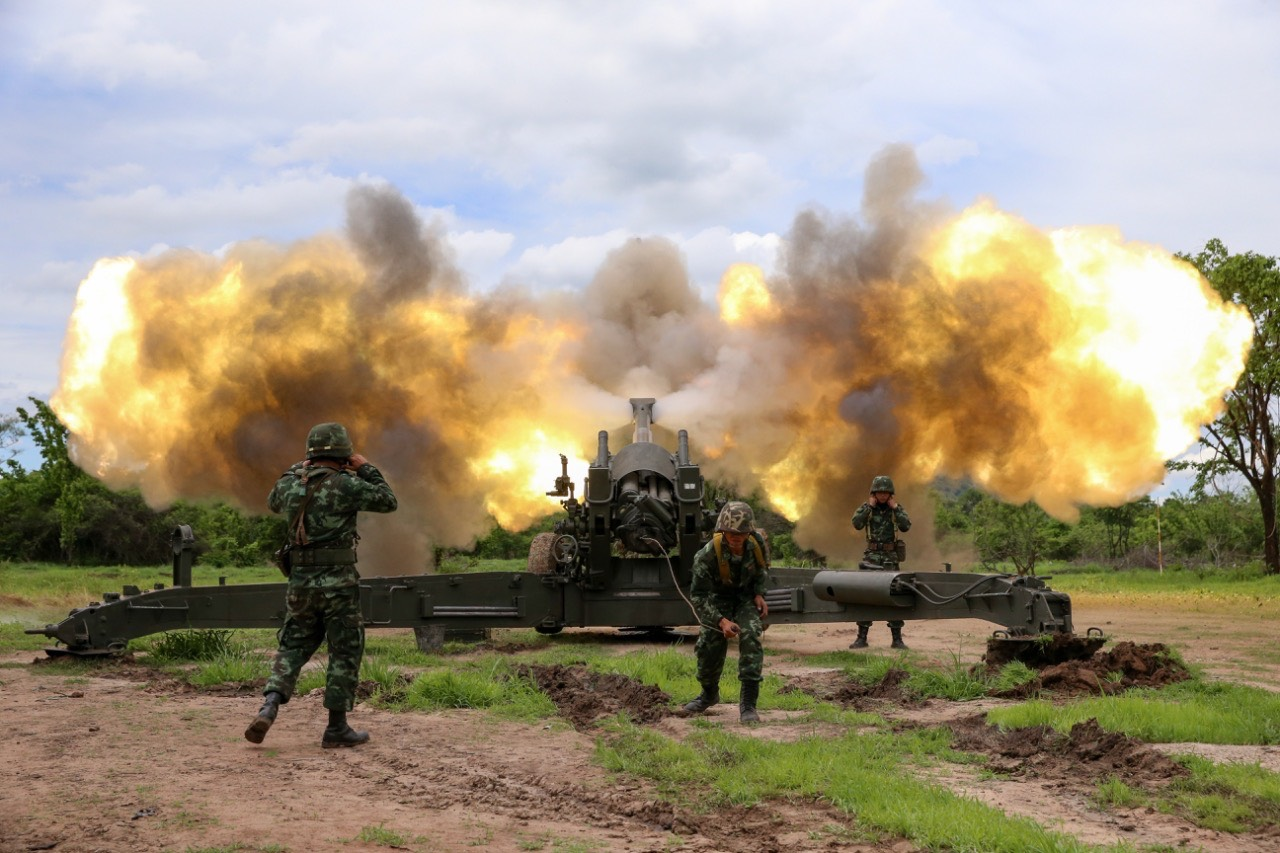 Howitzer medium, towed, 155mm, M198